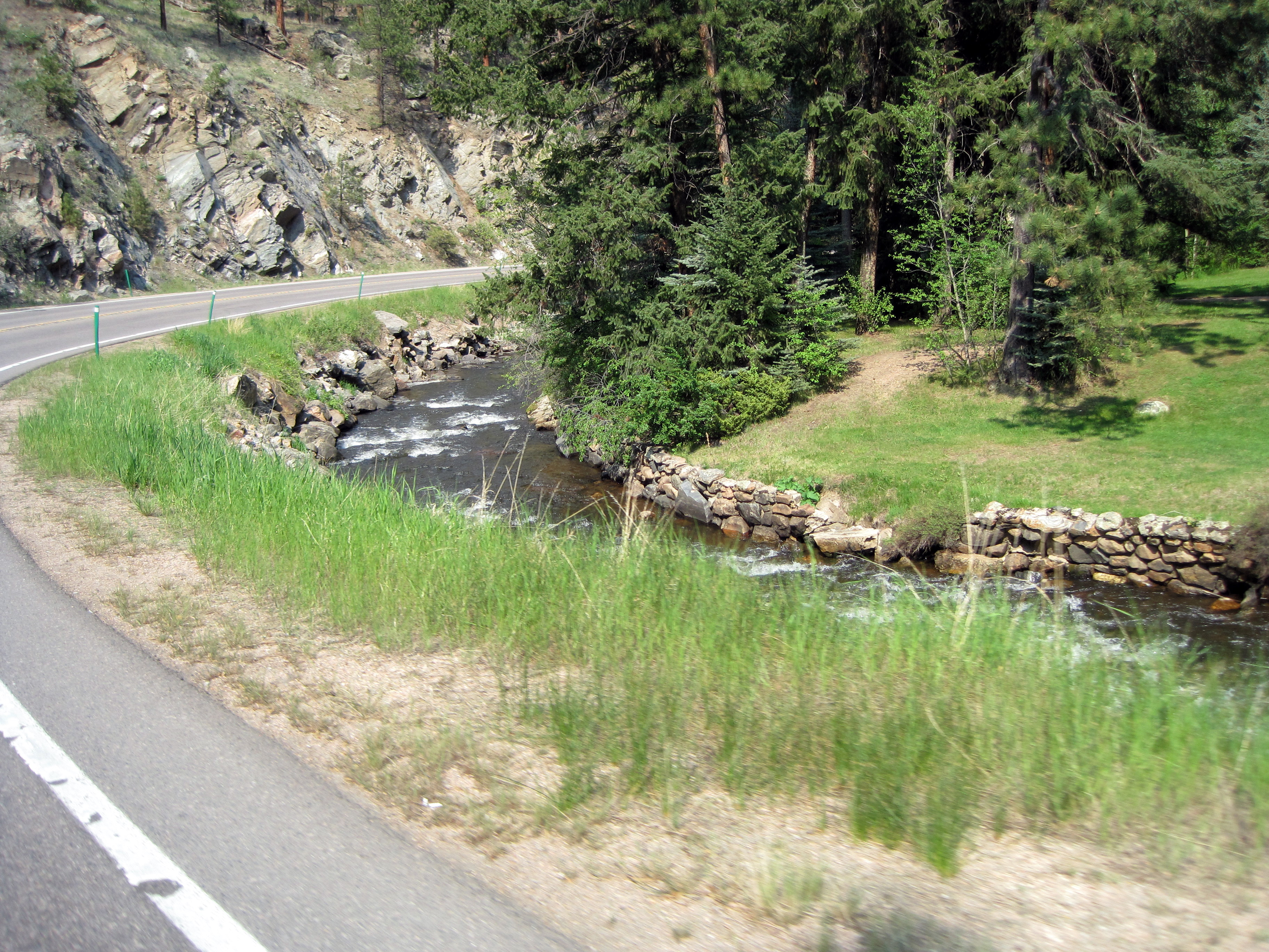 SH 74 near Idledale, CO